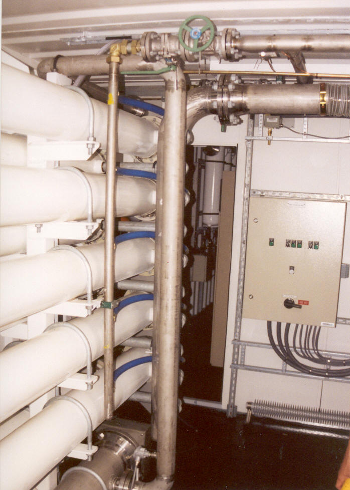 Blick auf die Membranen zur Stickstofferzeugung